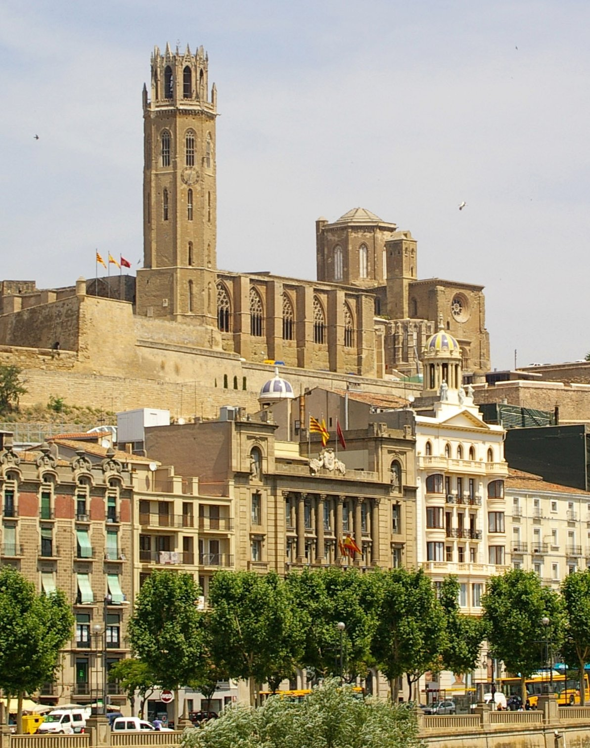 La Seu Vella, in Lleida. Taken from Cappont's side of the river.